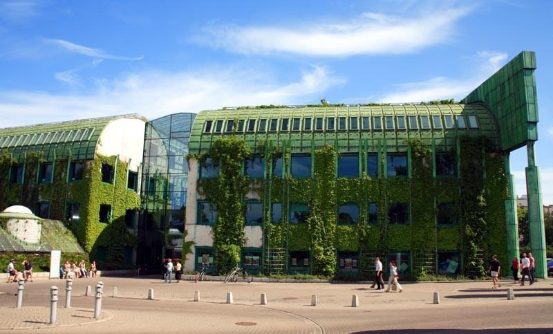 University Library in Warsaw